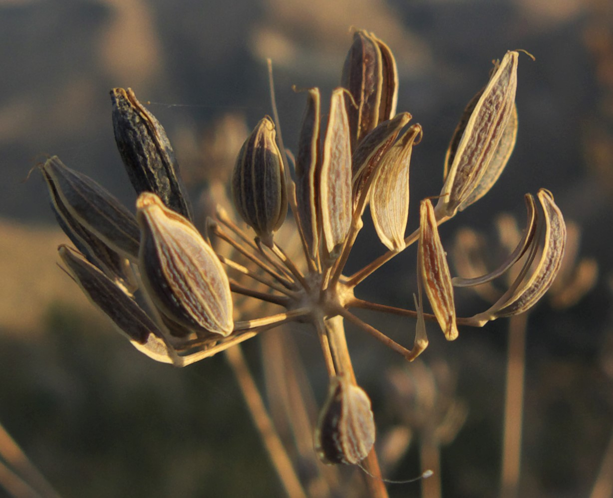 Lomatium nudicaule mature seeds at Saddlerock, Chelan County Washington